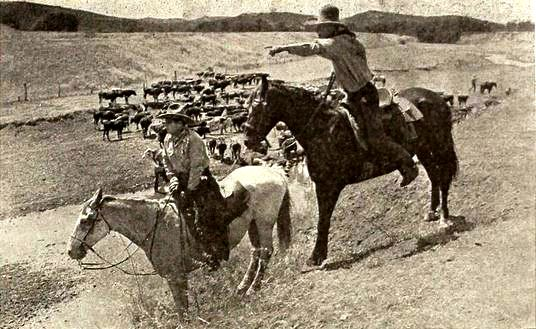 Still from the American western Lightning Bryce (1919), on page 1835 of the August 30, 1919 Motion Picture News.